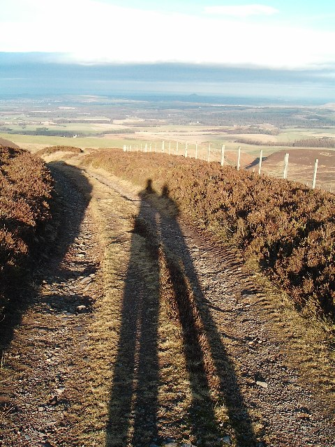 Long shadows on Lammer Law. Looking north from the access road to Lammer Law across the plain of East Lothian to North Berwick Law and the Firth of Forth.